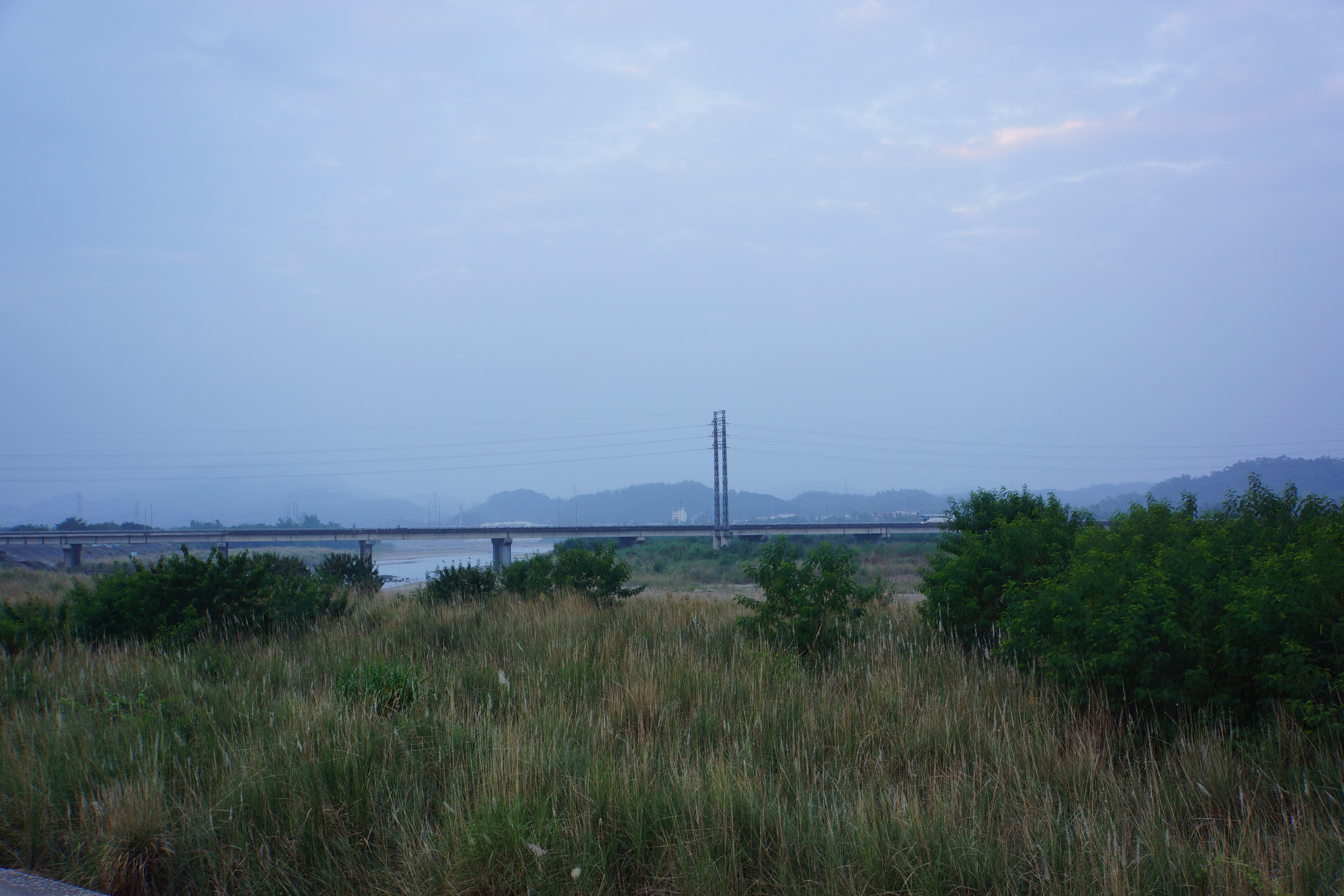 Qishan Bridge 旗山橋